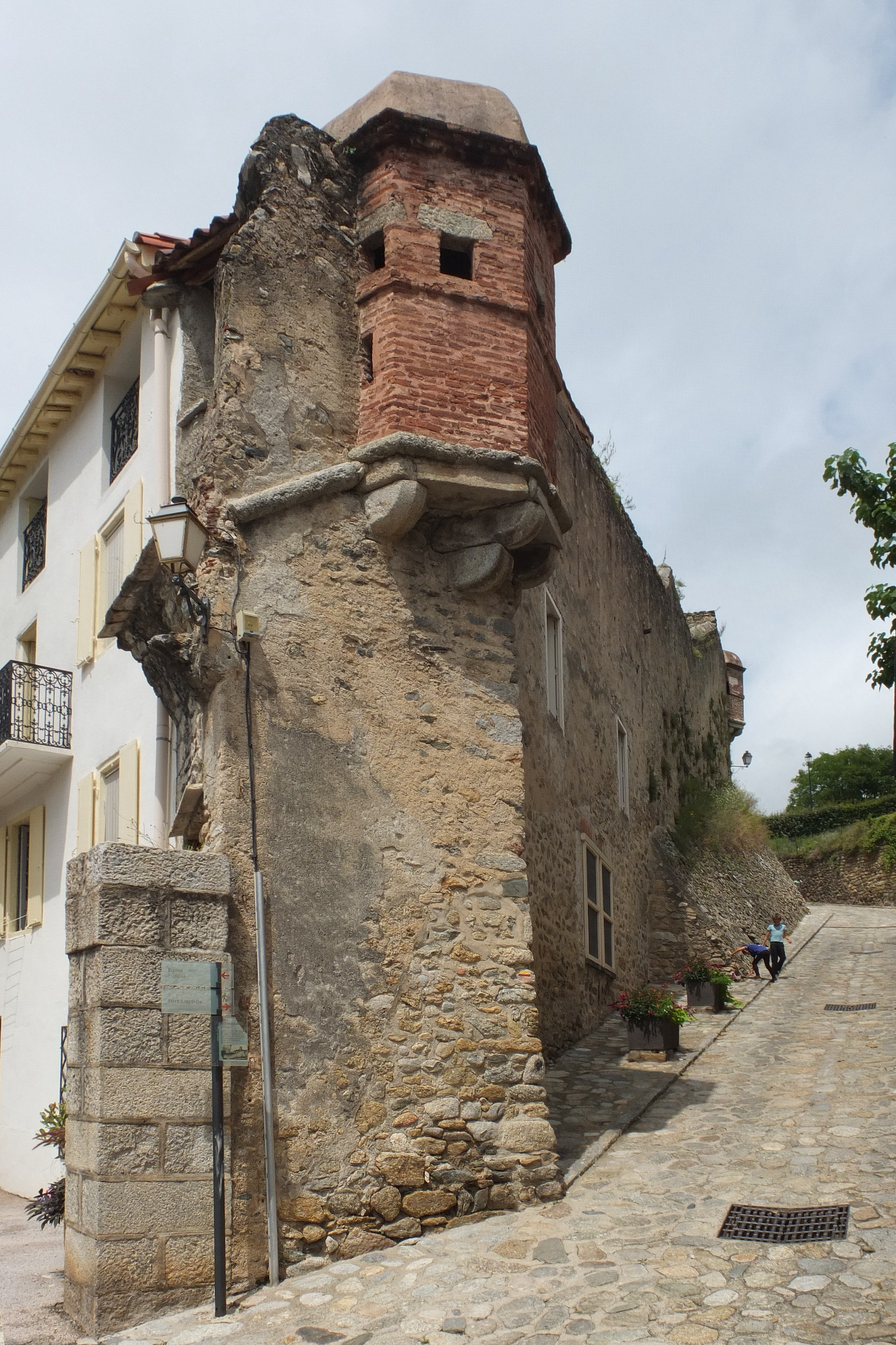 Prats-de-Mollo-la-Preste, part of the town wall, 17th century.